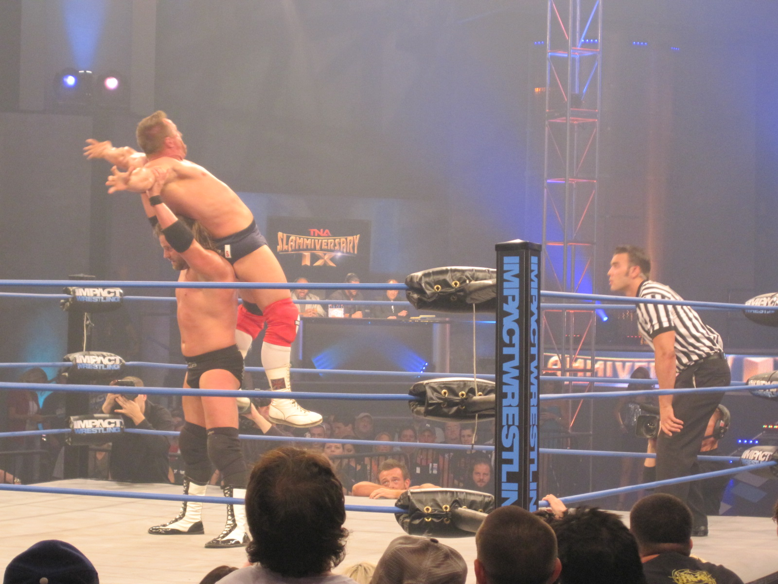 Sunday, June 12, 2011. Universal Orlando